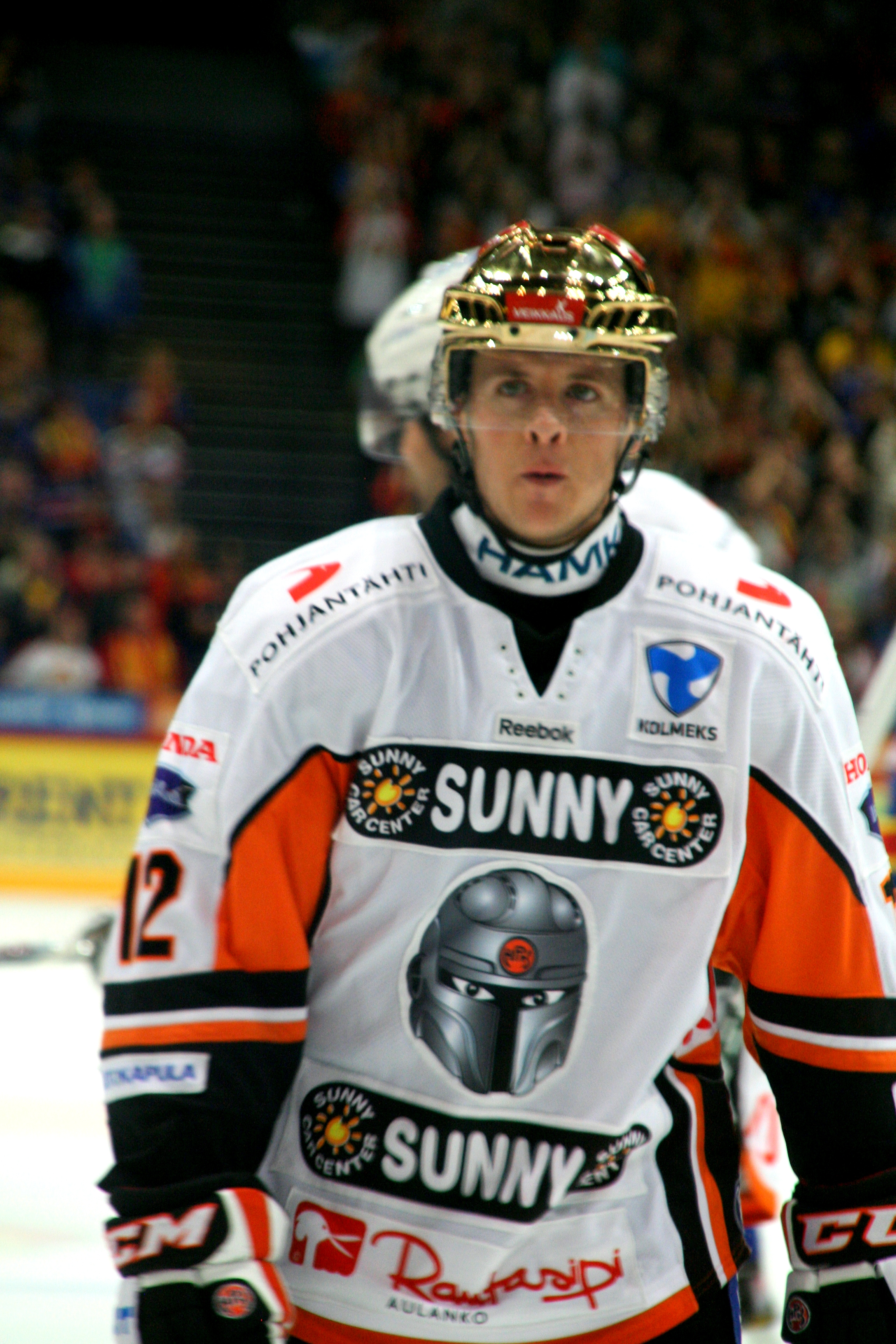 Ice Hockey Team HPK's Attacker #12 Alex Leavitt.